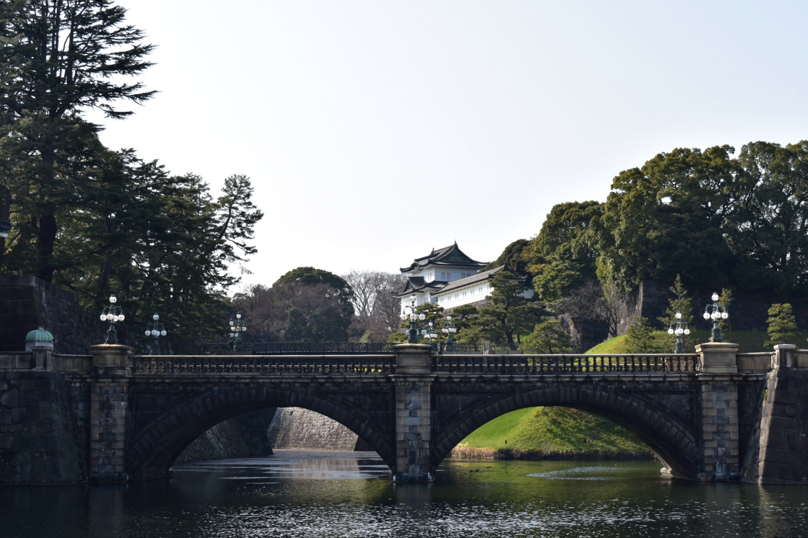 Front gate in Imperial Palece of Japan